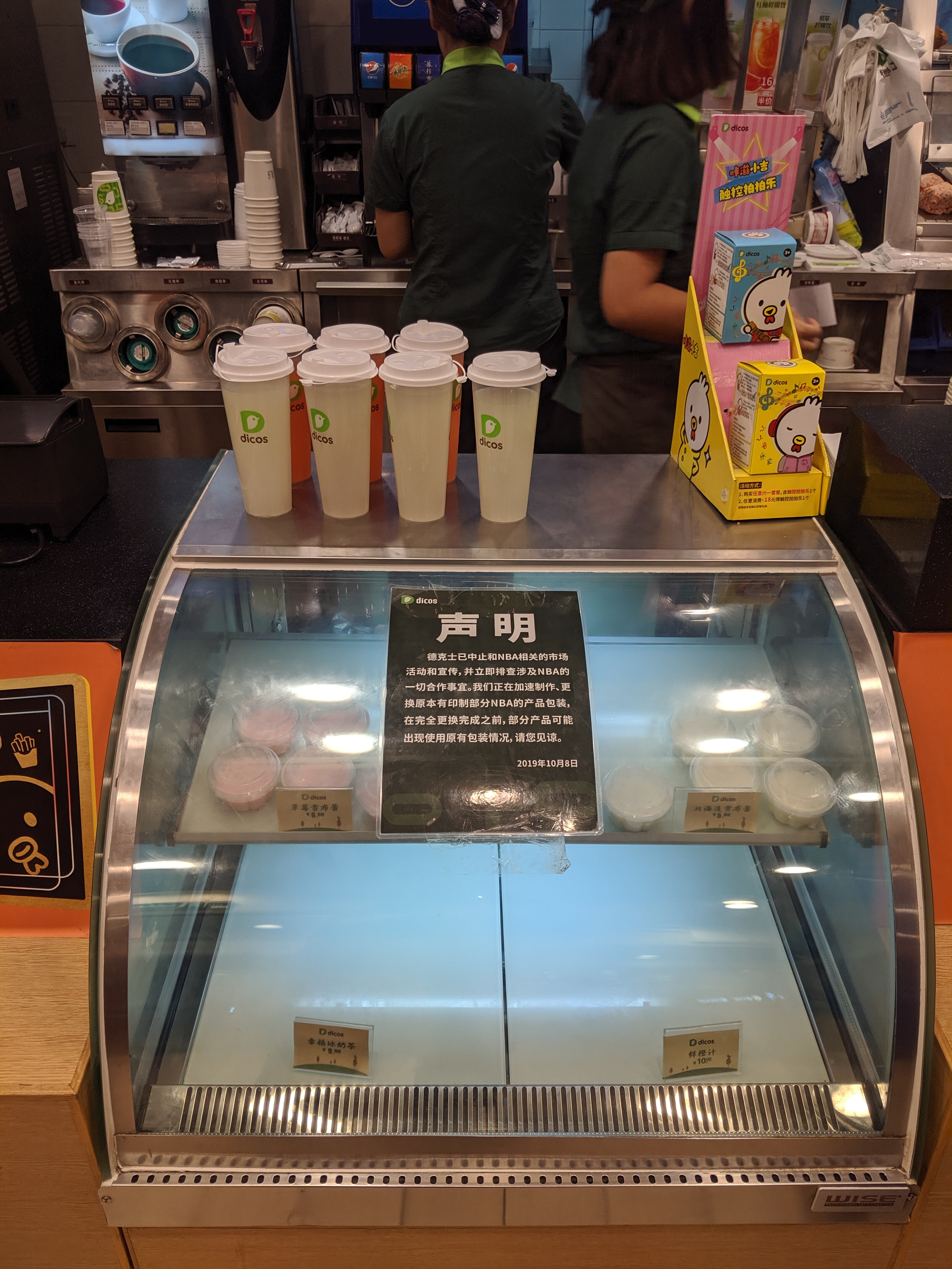 A Dicos restaurant with a notice stating their partnership with the NBA terminated as a result of Daryl Morey's comment on Hong Kong. The notice says, Dicos has already terminated all marketing and advertising related to the NBA and will start to investigate and eliminate all previous partnerships with the NBA involved. We have been speeding up in making and replacing previous food packaging with NBA symbols, and before the replacement process is fully completed, some products may still use the original packaging. Apology about that. Oct 8th, 2019